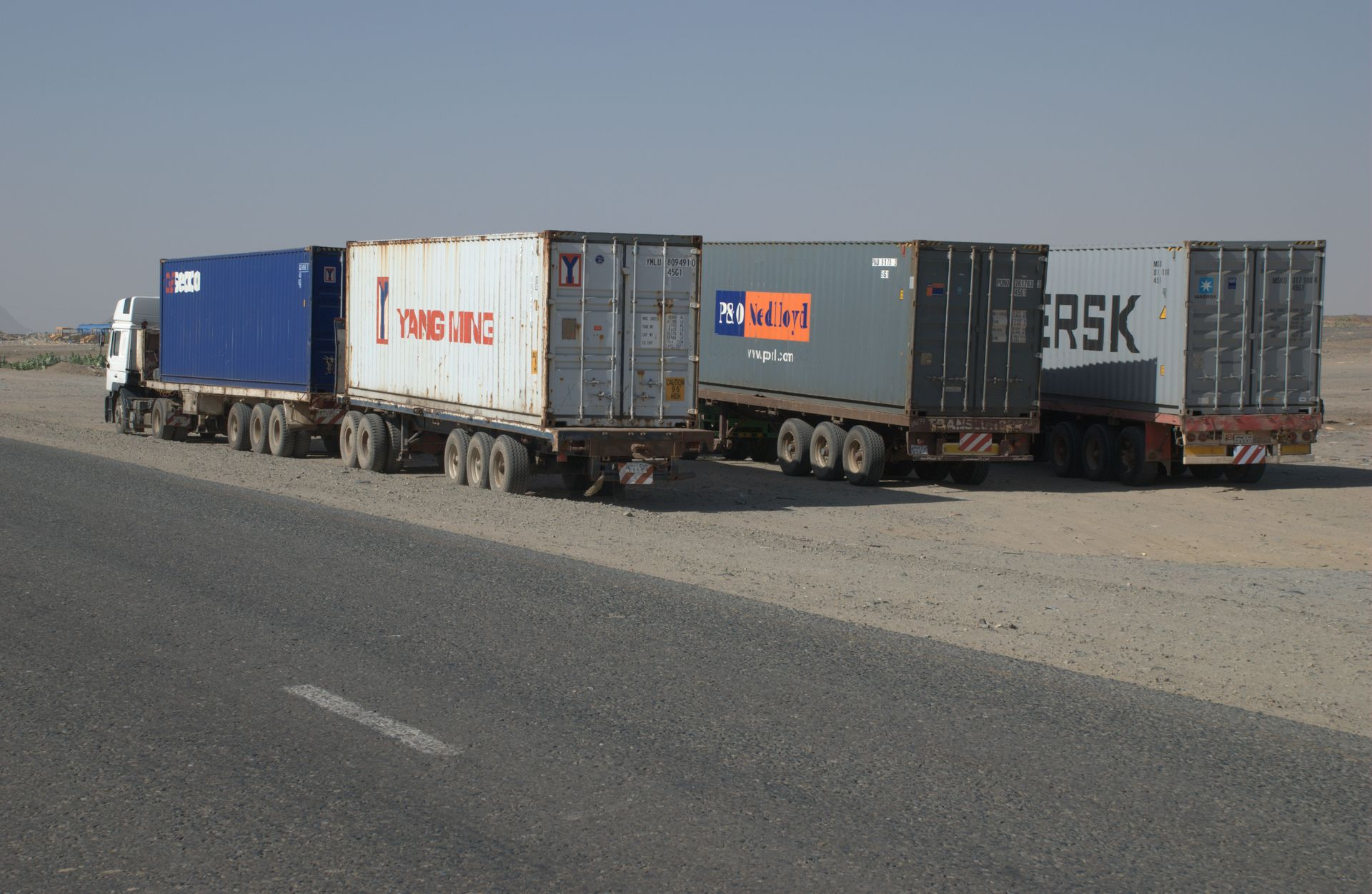 Road between Port Sudan and Atbara